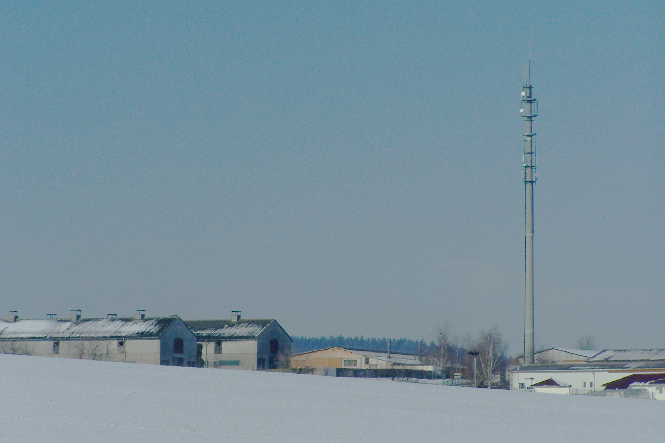 The agriculture community Moorgrund in Witzelroda.